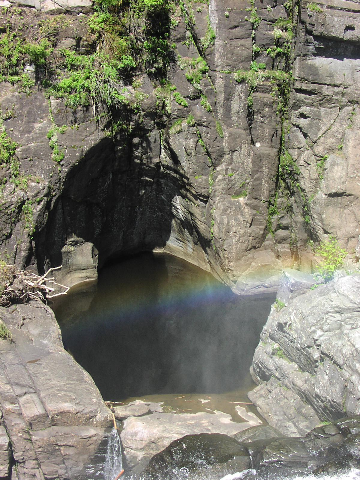 Giant pothole at Canyon Sainte-Anne.